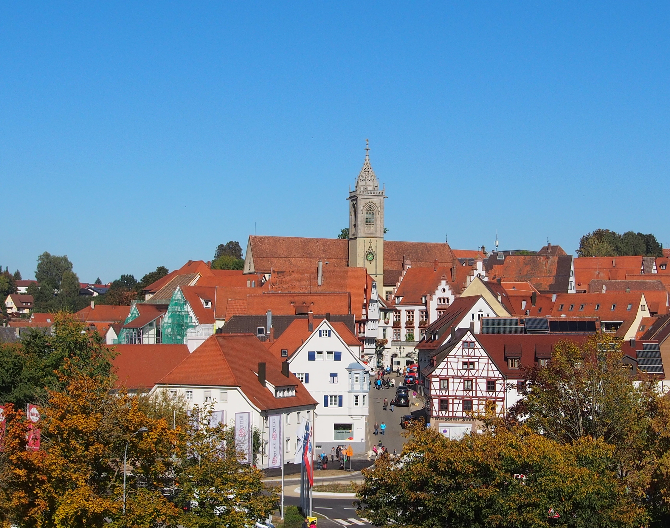 View of the city center of Pfullendorf